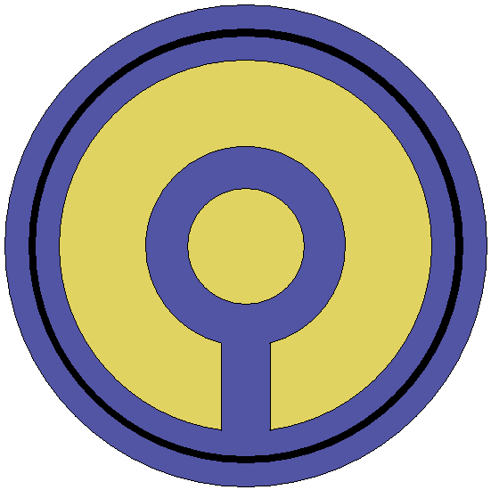 Shieldpattern of Quarta Italica (ex Legio IIII Italica) about 400 AD; Source: Notitia Dignitatum Orientis VII